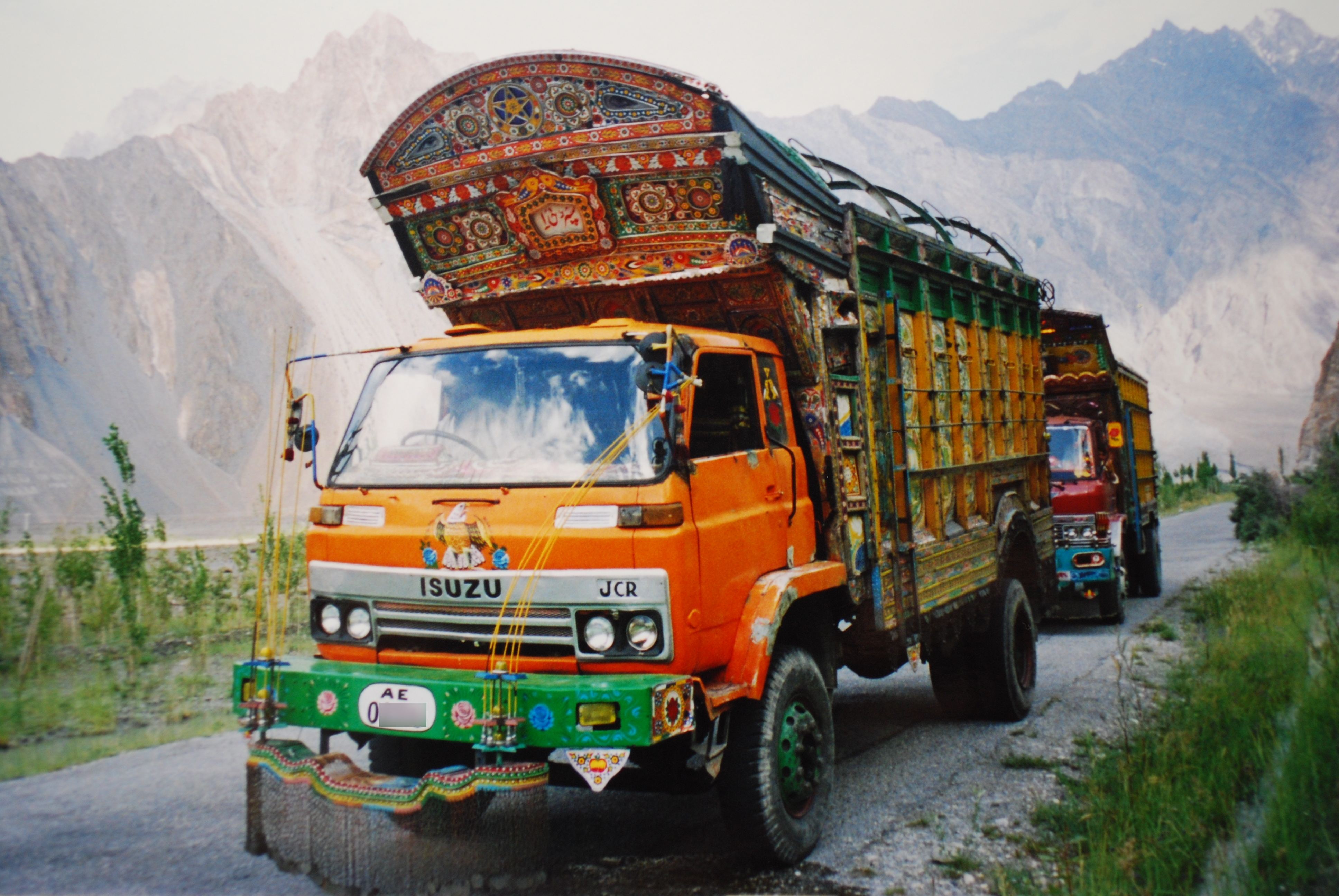 Pakistani truck in Karakoram Highway, passu, Northern Areas, Pakistan